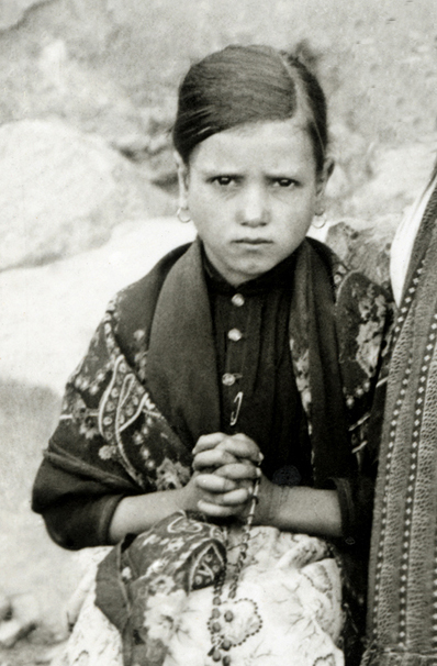 Jacinta Marto, one of the three children whom the Our Lady of Fatima appeared.